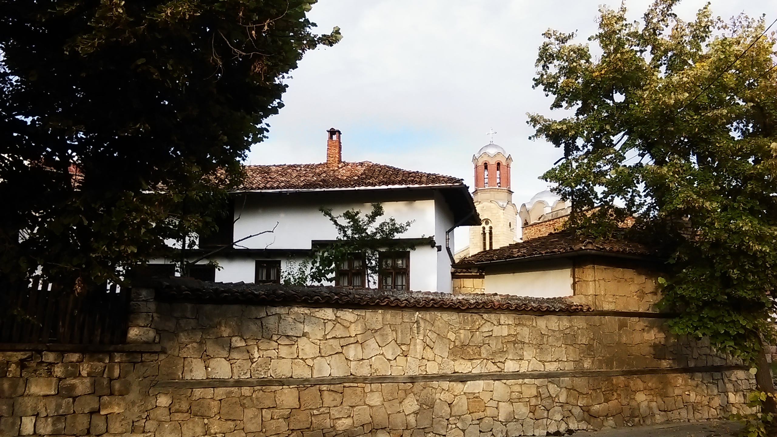 Stanka Nikolica Spaso-Elenina's House Museum in Razgrad with Church of St. Nickolas the Wonderworker at the background